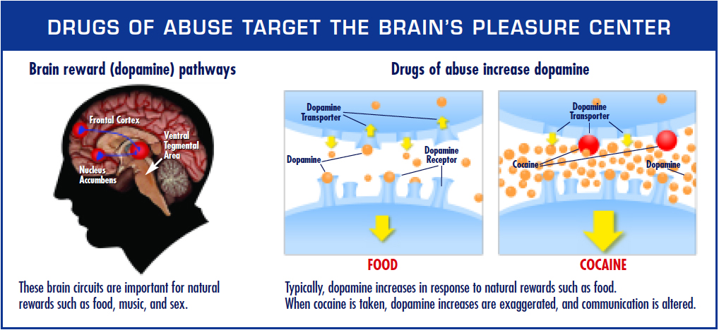 Drugs of abuse target the brain's pleasure center